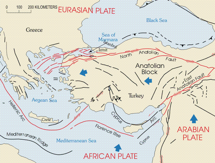 The tectonic map of Turkey includes the North Anatolian fault, East Anatolian fault, and Hellenic and Florence trenches. The westward movement of the Anatolian block results from (1) differences in rates of motion between the Arabian and African plates, (2) different directions of motion between the Anatolian block and Eurasian plate to the north, and (3) subduction of the African plate beneath the Anatolian block at the Hellenic and Florence trenches. The Arabian plate is moving to the north faster than the African plate, both relative to a stable Eurasian plate. The result is a westward moving wedge incorporating most of Turkey.